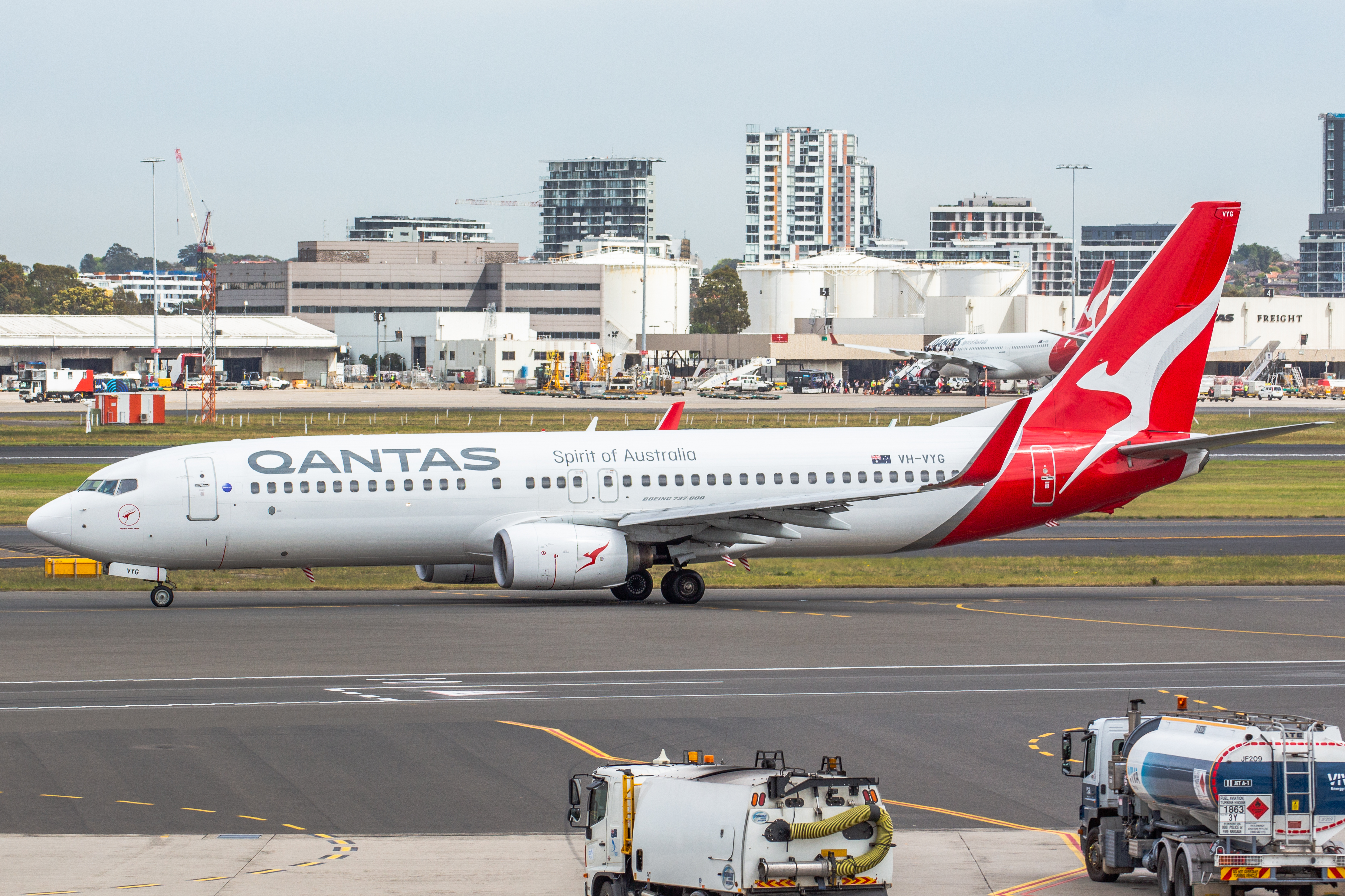 Qantas B737-800 Taxiing at Sydney Airport in 2018